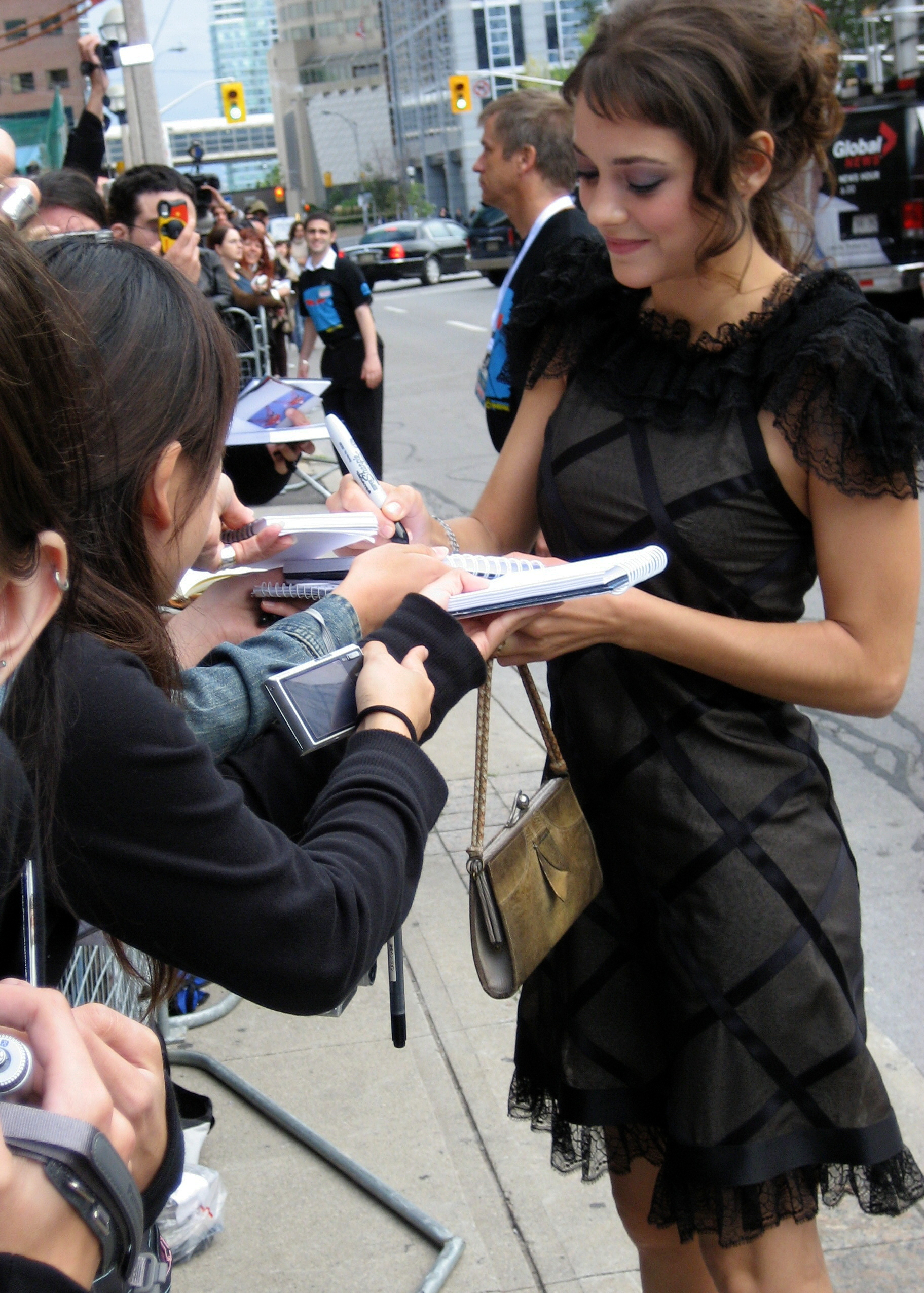 Marion Cotillard at the premiere of A Good Year, Toronto Film Festival 2006